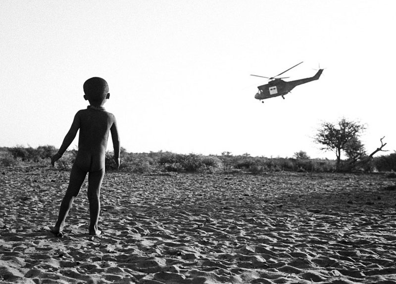 Part of the series In Search of the San that Paul Weinberg shot over three decades. In the photo essay, he has sought to portray the lives of people who traditionally lived in close harmony with the land, but are now in a state of flux and struggle.